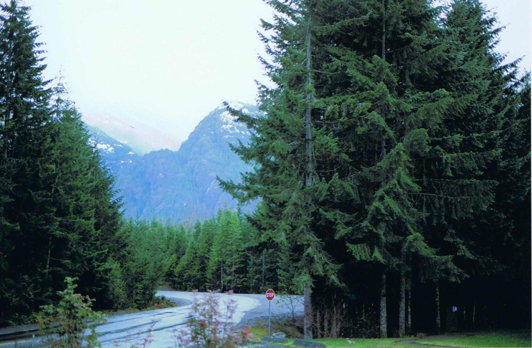 Highway 28 passing through Strathcona Provincial Park on Vancouver Island. Summary Highway 28 passing through Strathcona Provincial Park on Vancouver Island.